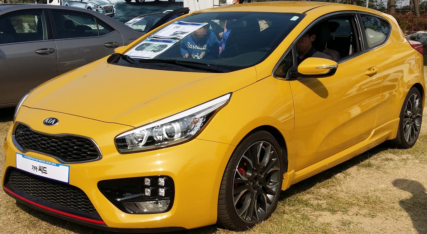 Kia Pro cee'd